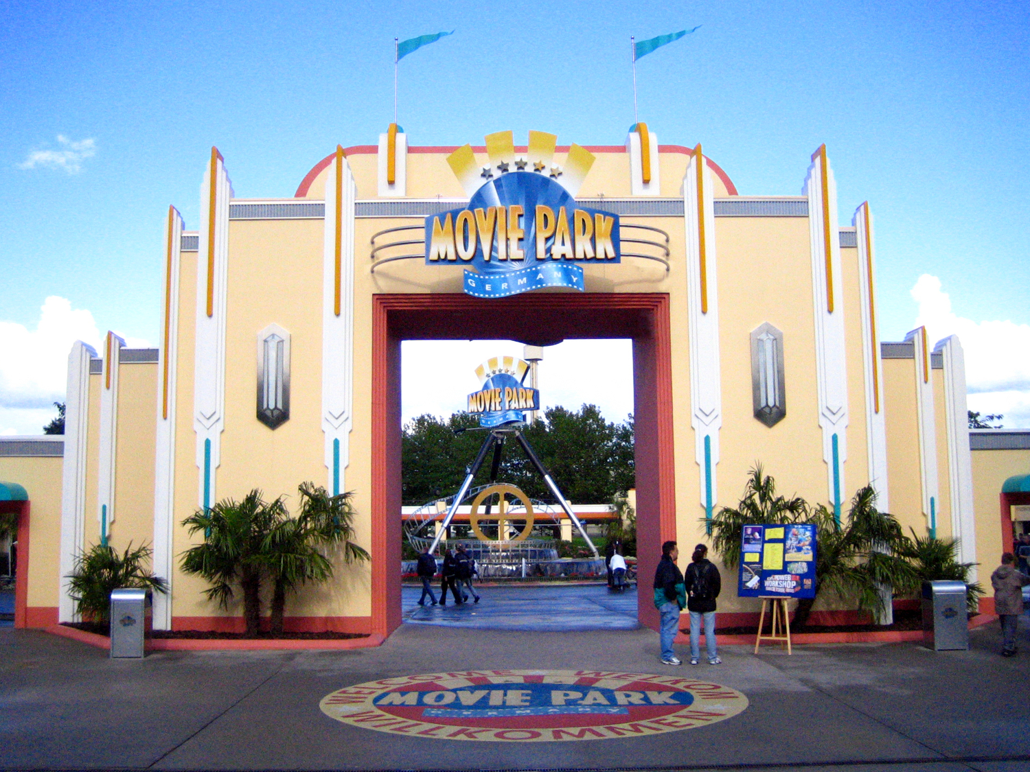 Entry of Moviepark in Bottrop, Germany